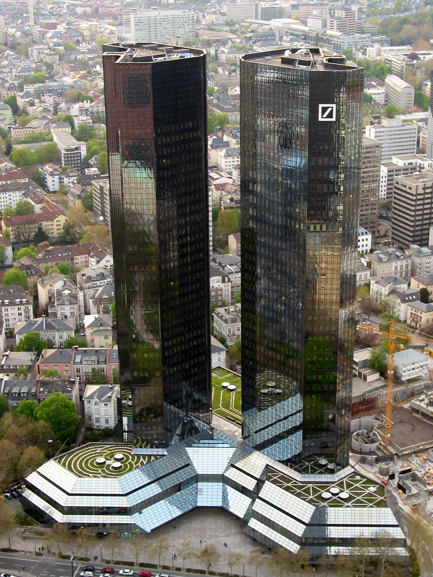 Deutsche Bank Towers in Frankfurt am Main, Germany